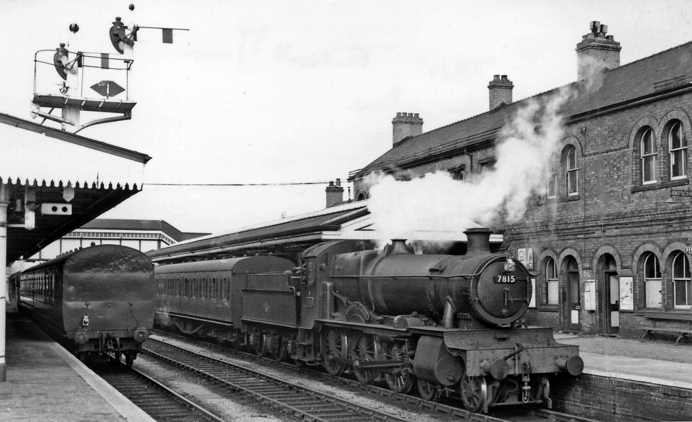 Down stopping train at Oswestry. View northward, towards Whitchurch and Gobowen; ex-Cambrian Whitchurch - Welshpool - Machynlleth etc. main line, junction of GW branch from Gobowen. The Cambrian main line was a victim of the Beeching Report and was closed on 18/1/65, the Gobowen line survived until 7/11/66 when Oswestry station was closed but remained open for goods until 6/12/71. The station has been restored recently by the Cambrian Railway Trust - but with no trains, yet (2011). The train is headed by 4-6-0 No. 7815 'Fritwell Manor' (built 1/39, withdrawn 10/64).